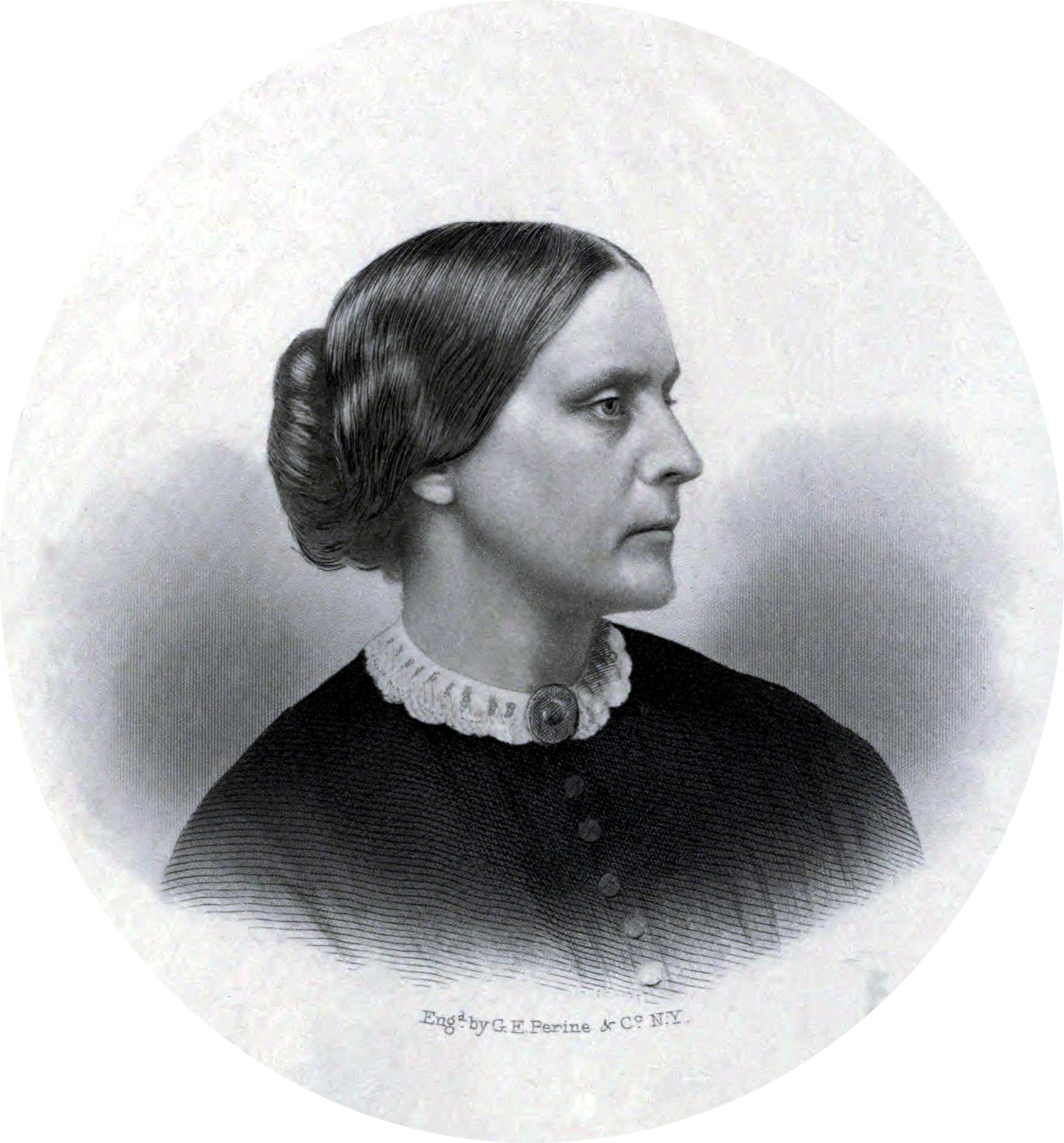 Public relations portrait of Susan B. Anthony as used in the History of Woman Suffrage by Anthony and Elizabeth Cady Stanton, Volume I, published in 1881.